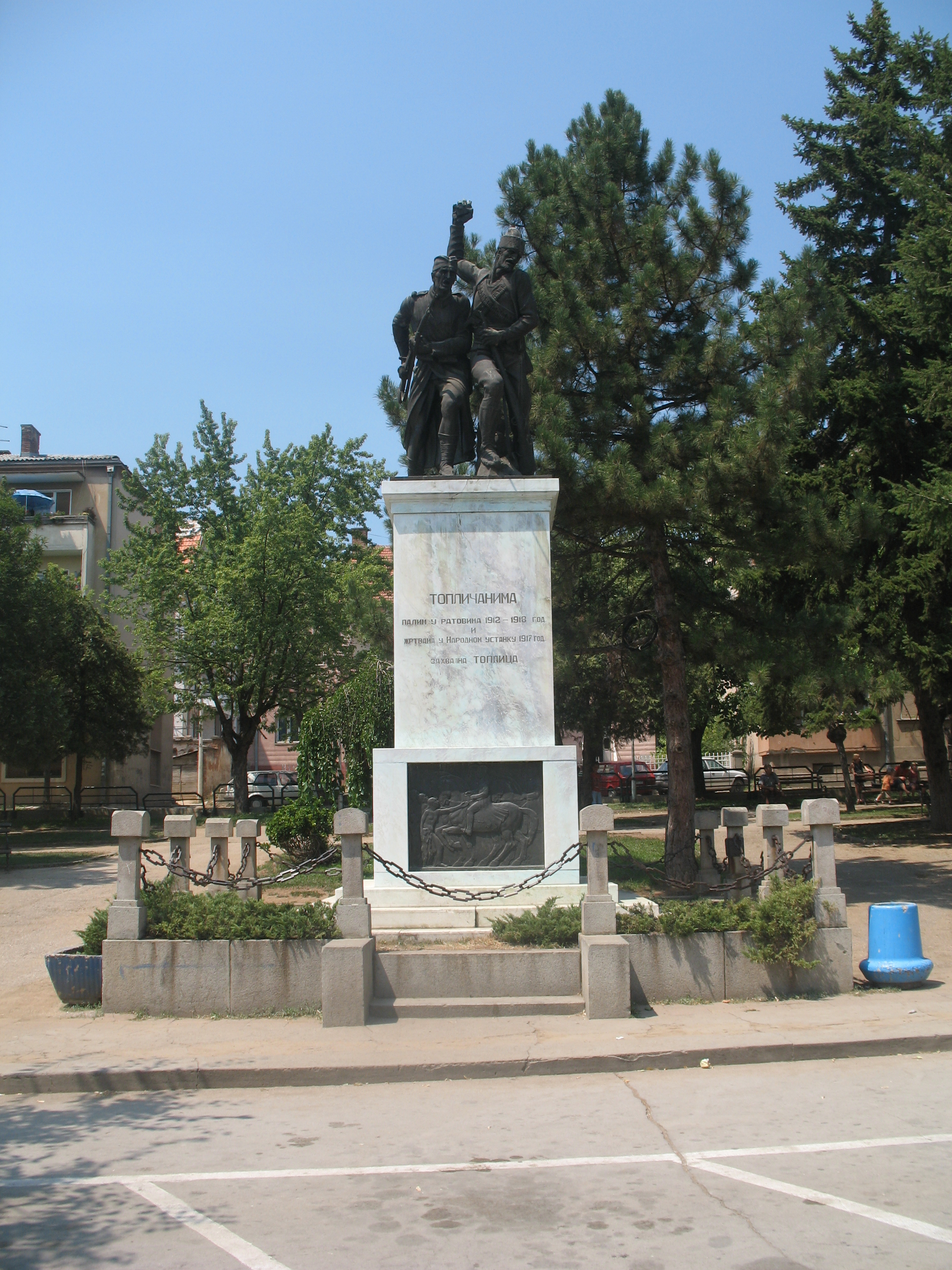 Monument to WWI heroes in Prokuplje